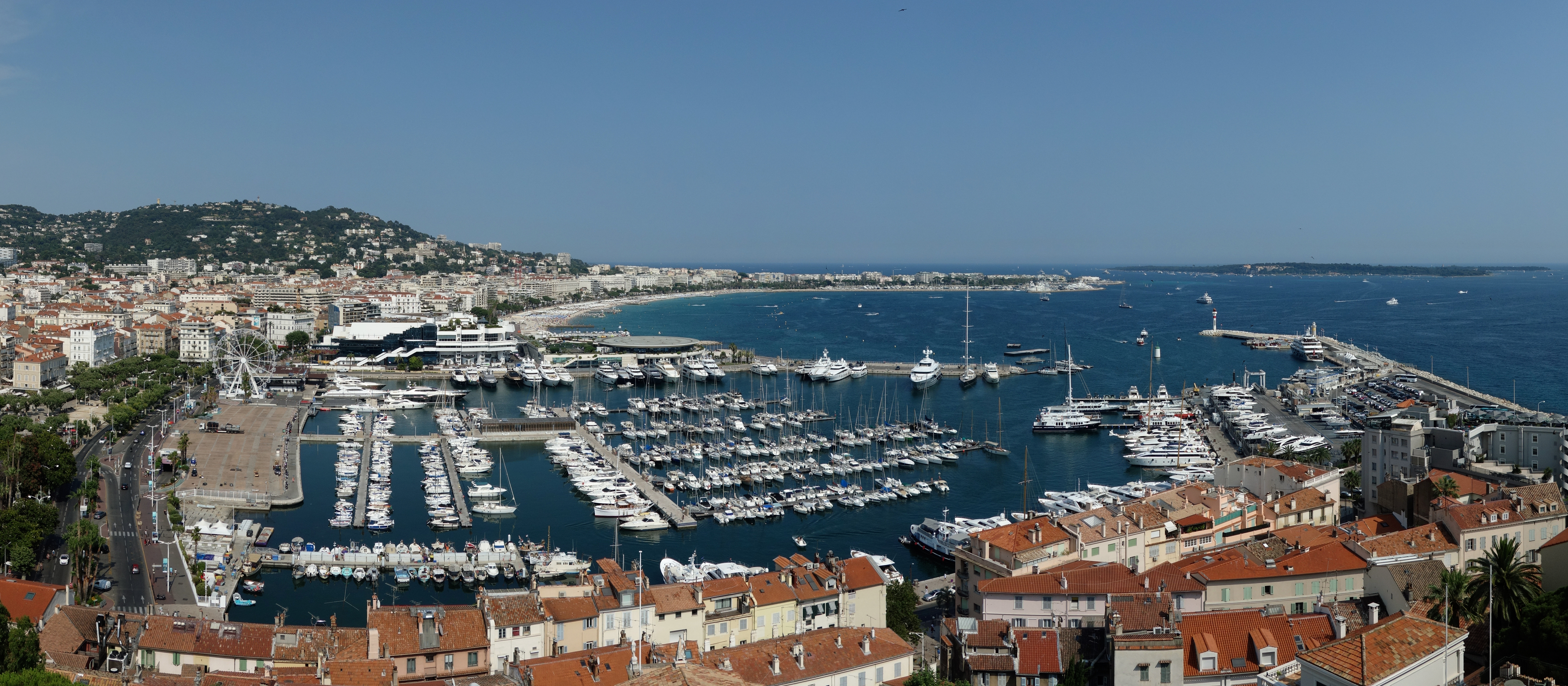 Cannes main harbor, Vieux Port, as seen from Suquet Tower in Le Suquet, the old town of Cannes.